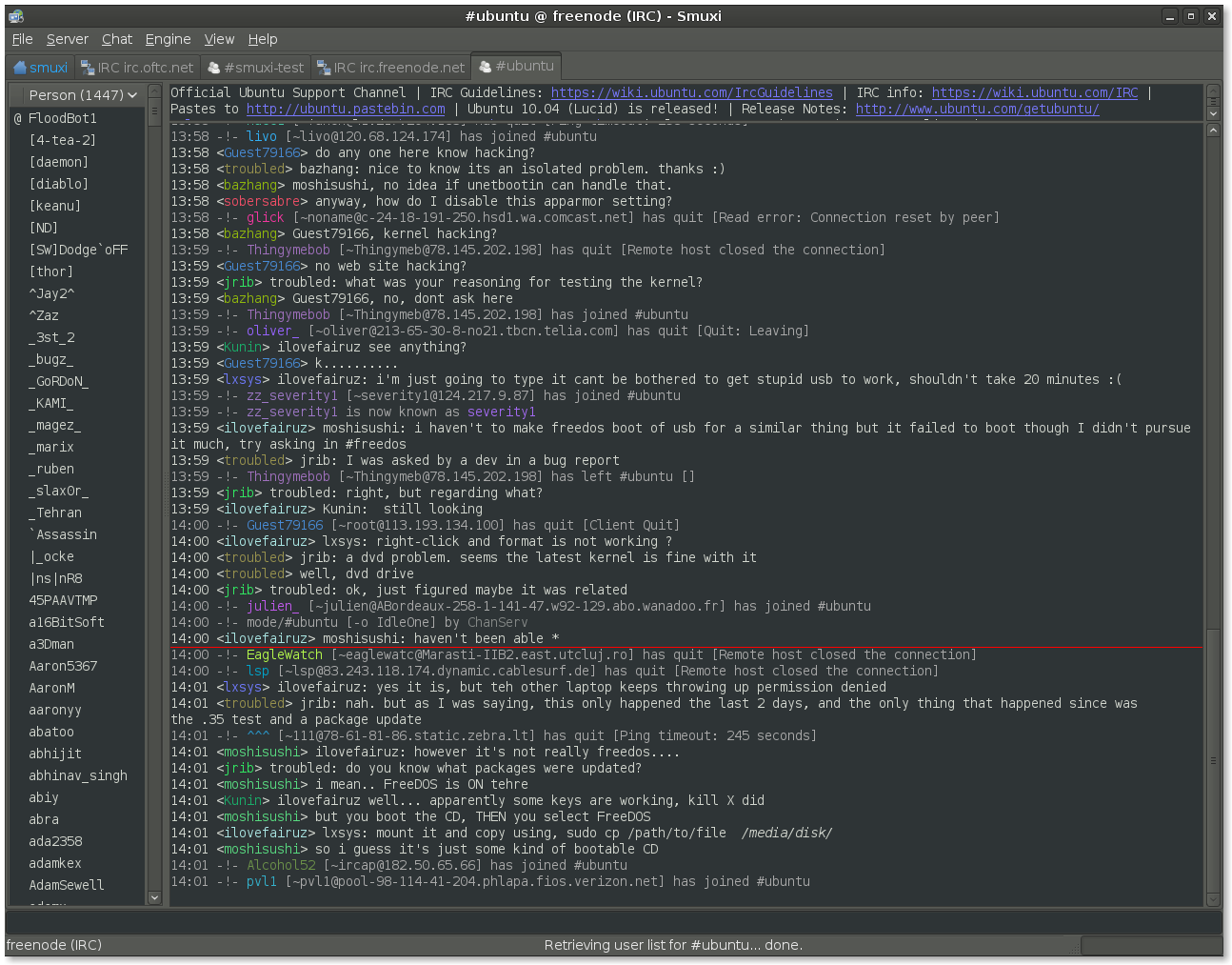 Screenshot of the Smuxi IRC client